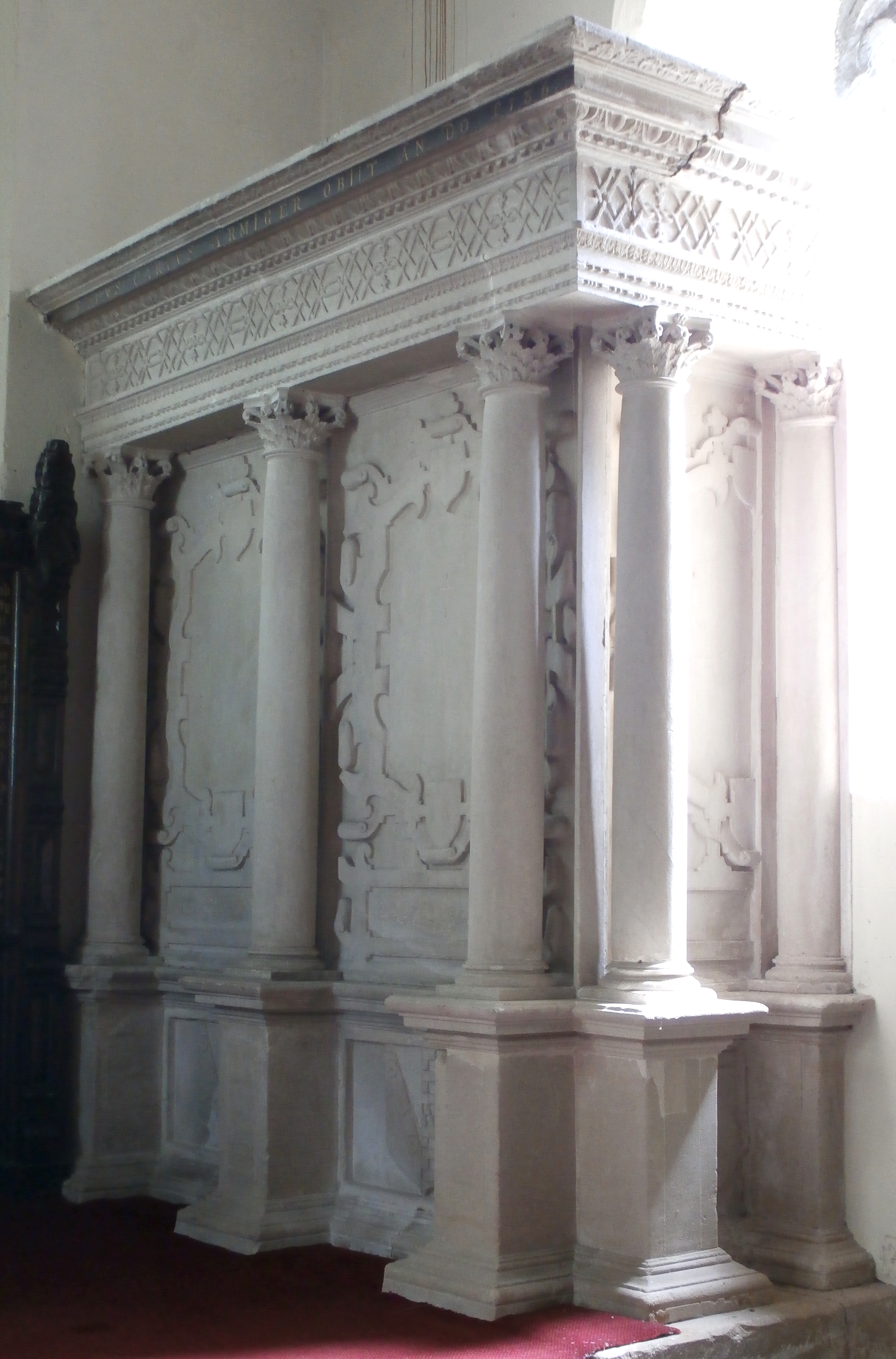 Monument to Robert III Cary (d.1586) of Clovelly, Devon. With strapwork motif. South wall of chancel, All Saints Church, Clovelly.